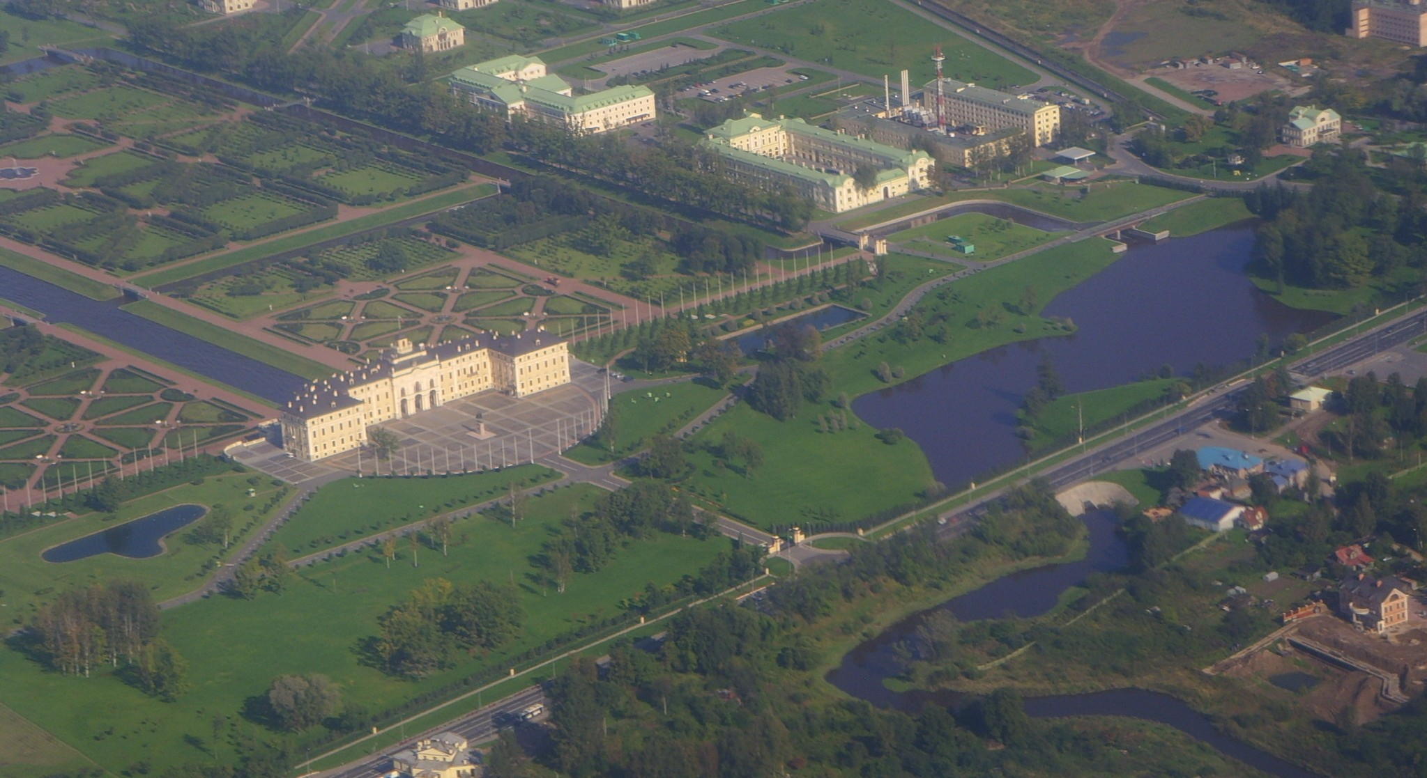 Saint Petersburg (Russia), Strelna, Constantine Palace.